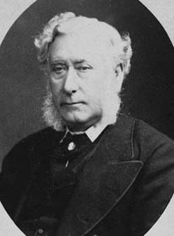 Christopher Rolleston (1817-1888), by unknown photographer